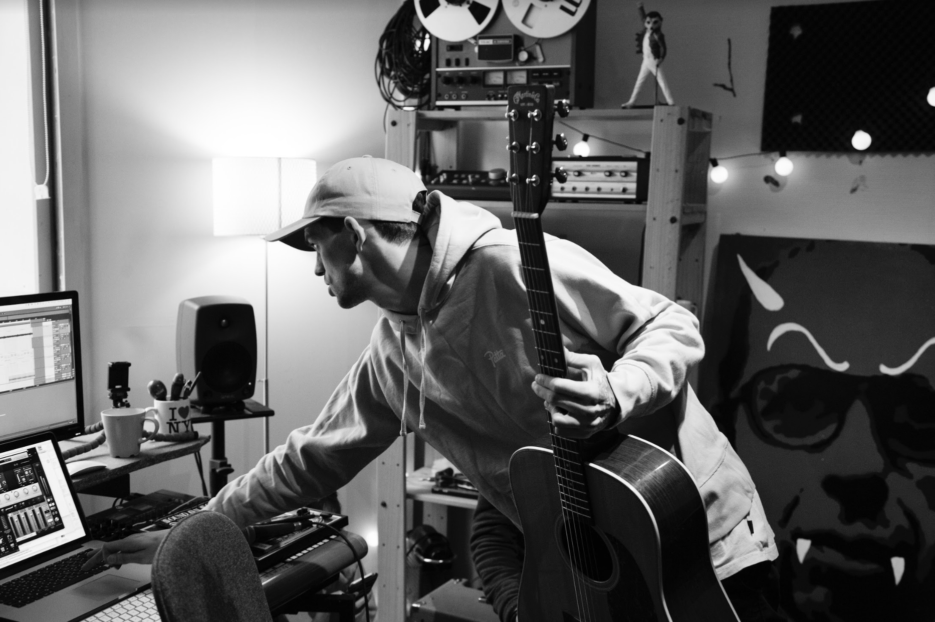 Eddy Atlantis in Bergen, Norway with Odd Martin (Sigrid,Aurora)